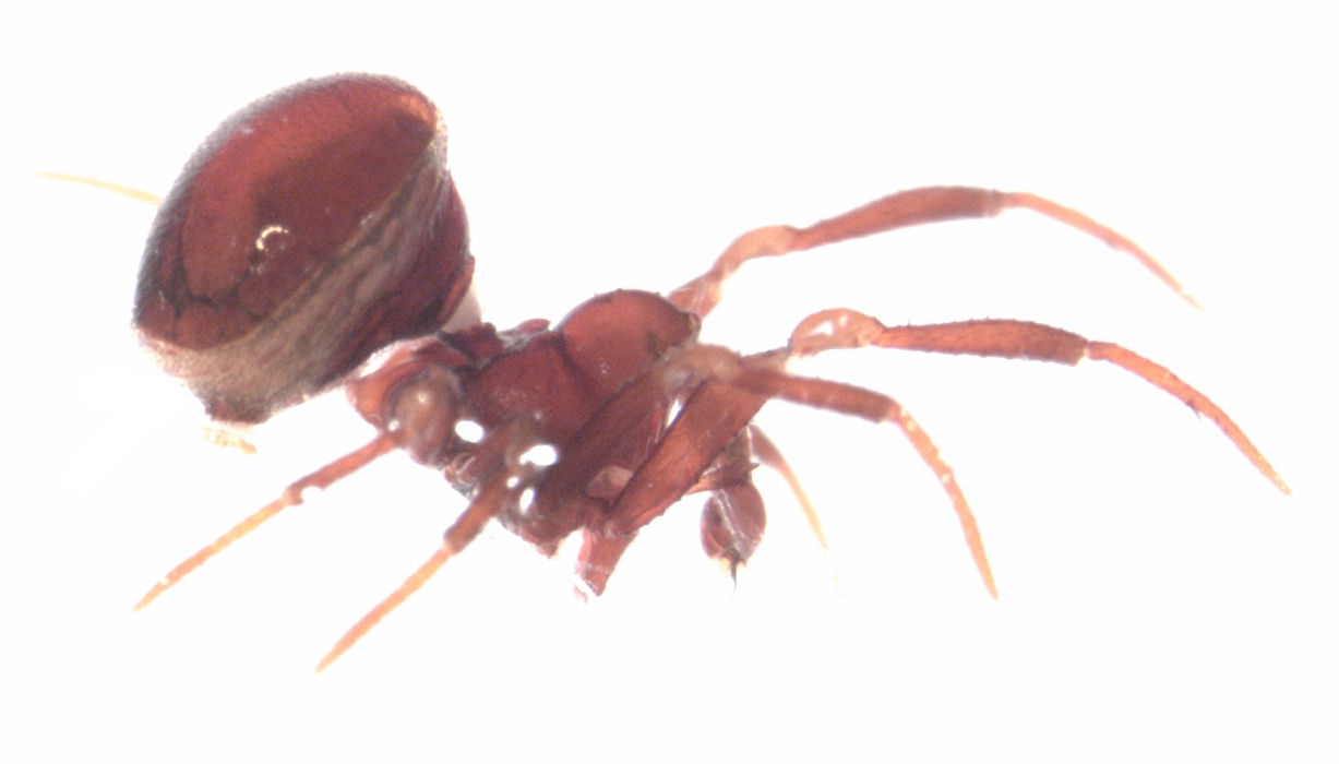 adult male Novanapis spinipes (lateral)